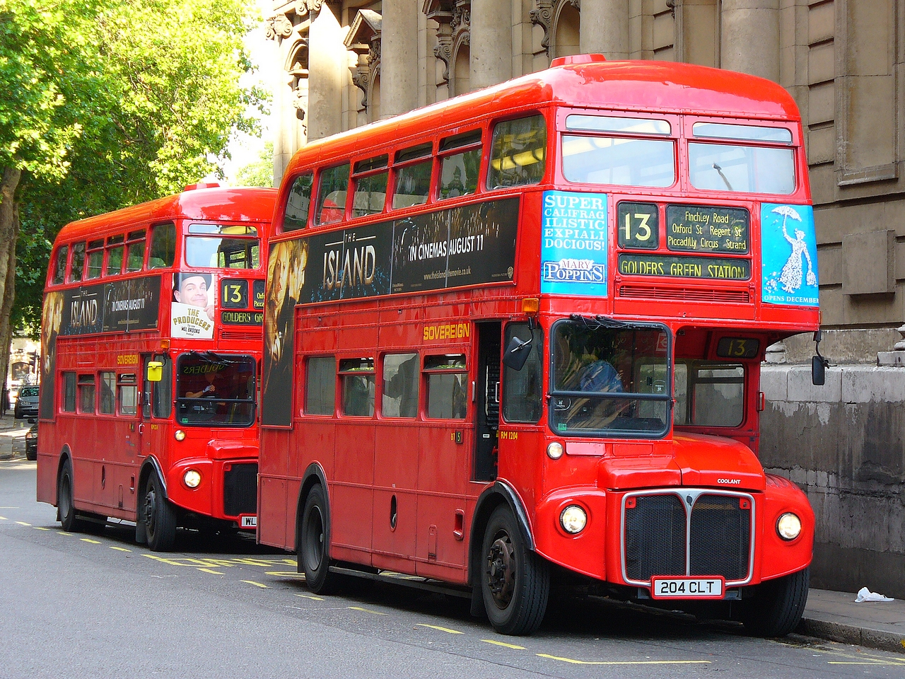 Routemasters RM1204 (infront) & RM324 (behind) in Aldwych, London